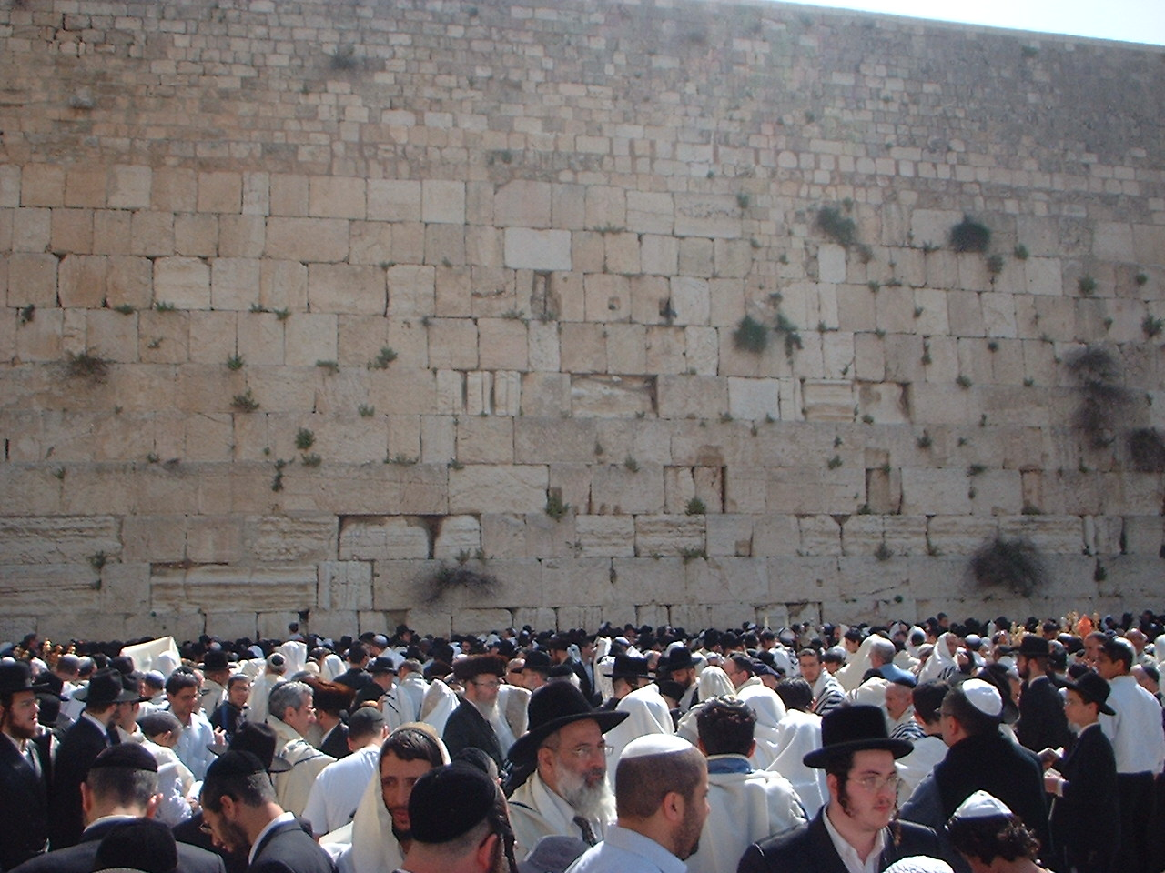 birkhat cohanim at the Western Wall during Passover 2004.